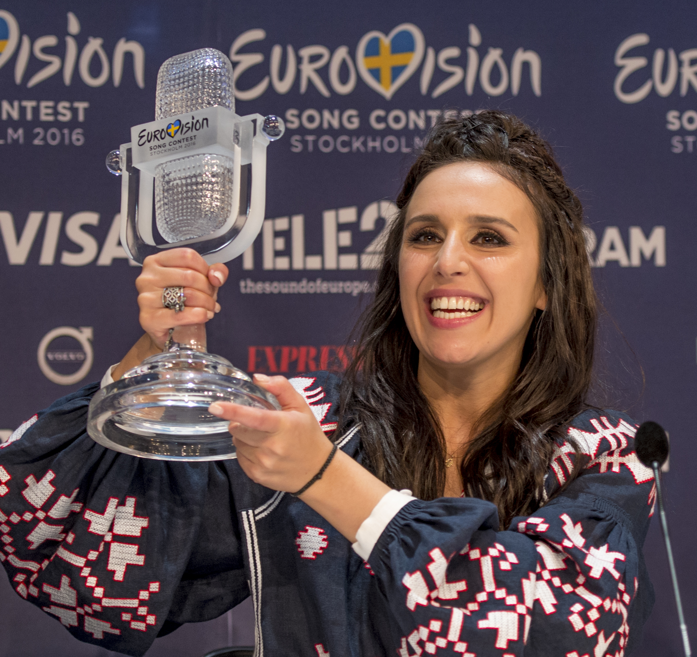 Jamala at the winners press conference, right after winning the Eurovision Song Contest 2016 in Stockholm. (Help translate this text)